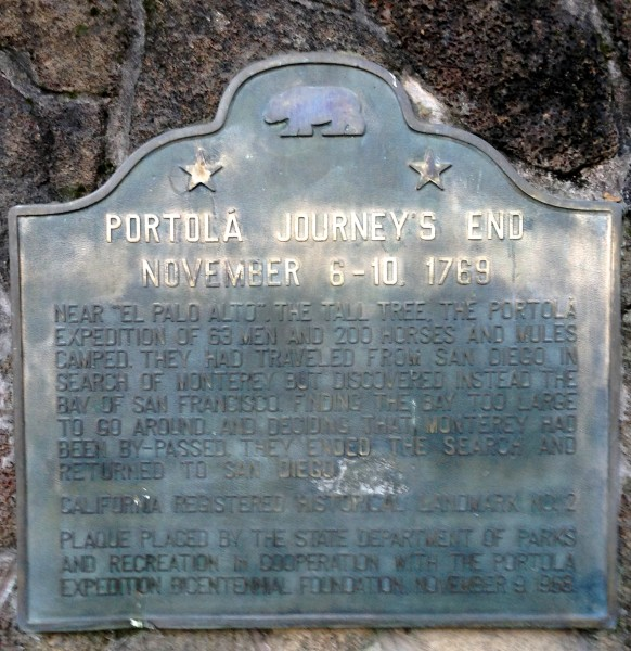 CHL #2 Portolá Journey's End, California State Plaque